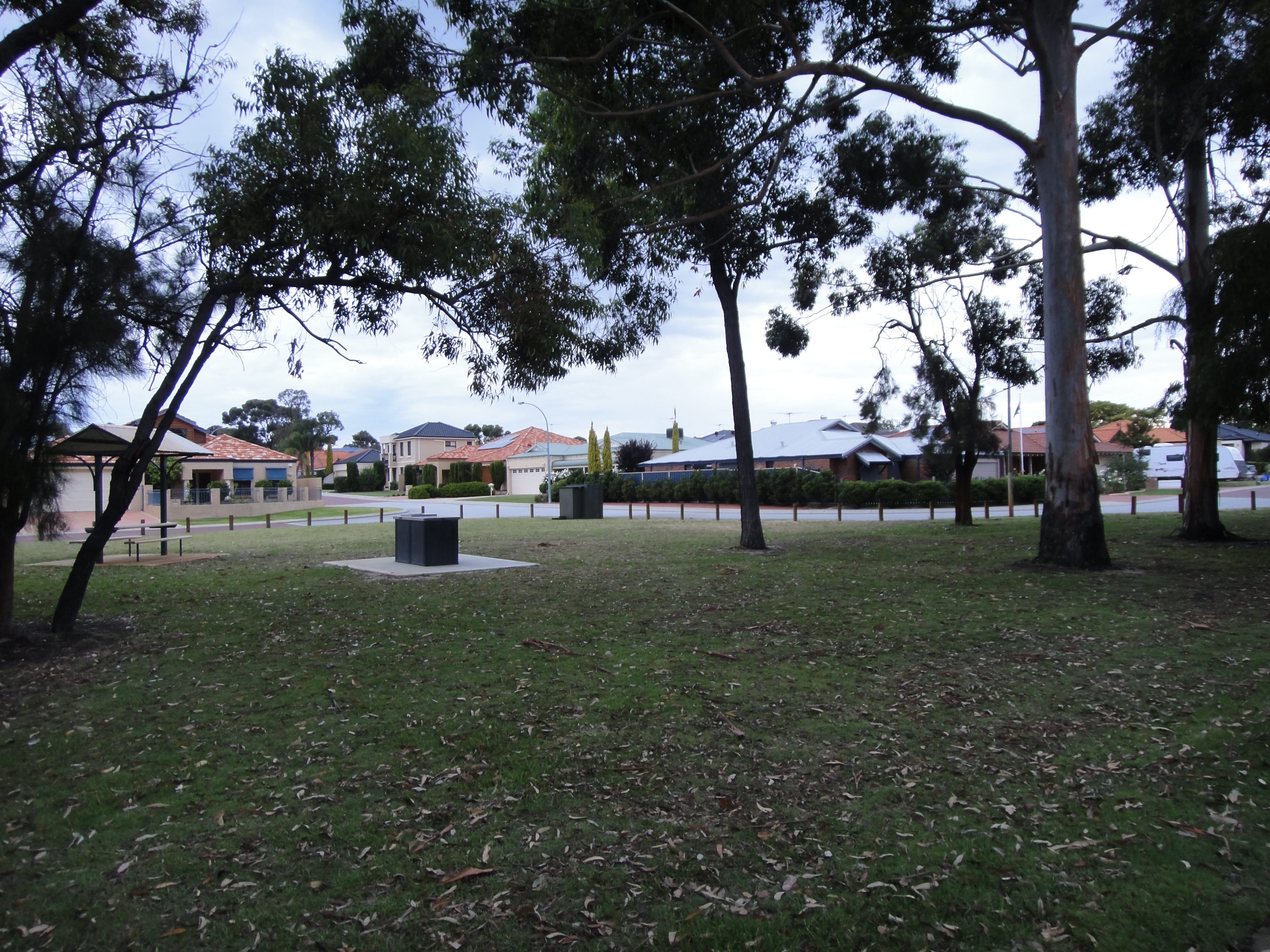 Greenwood Park